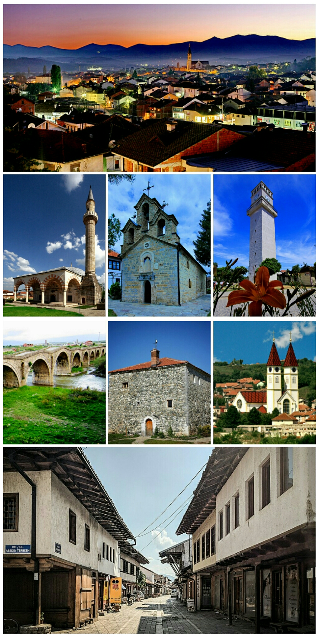 Đakovica- photomontage (Đakovica at Night, Hadum Mosque, Orthodox Church of St. John, Đakovica Clock Tower, Terzijski Bridge, Mazrrekaj Tower, Saint Paul and Saint Peter Catholic Church, Old Bazaar)